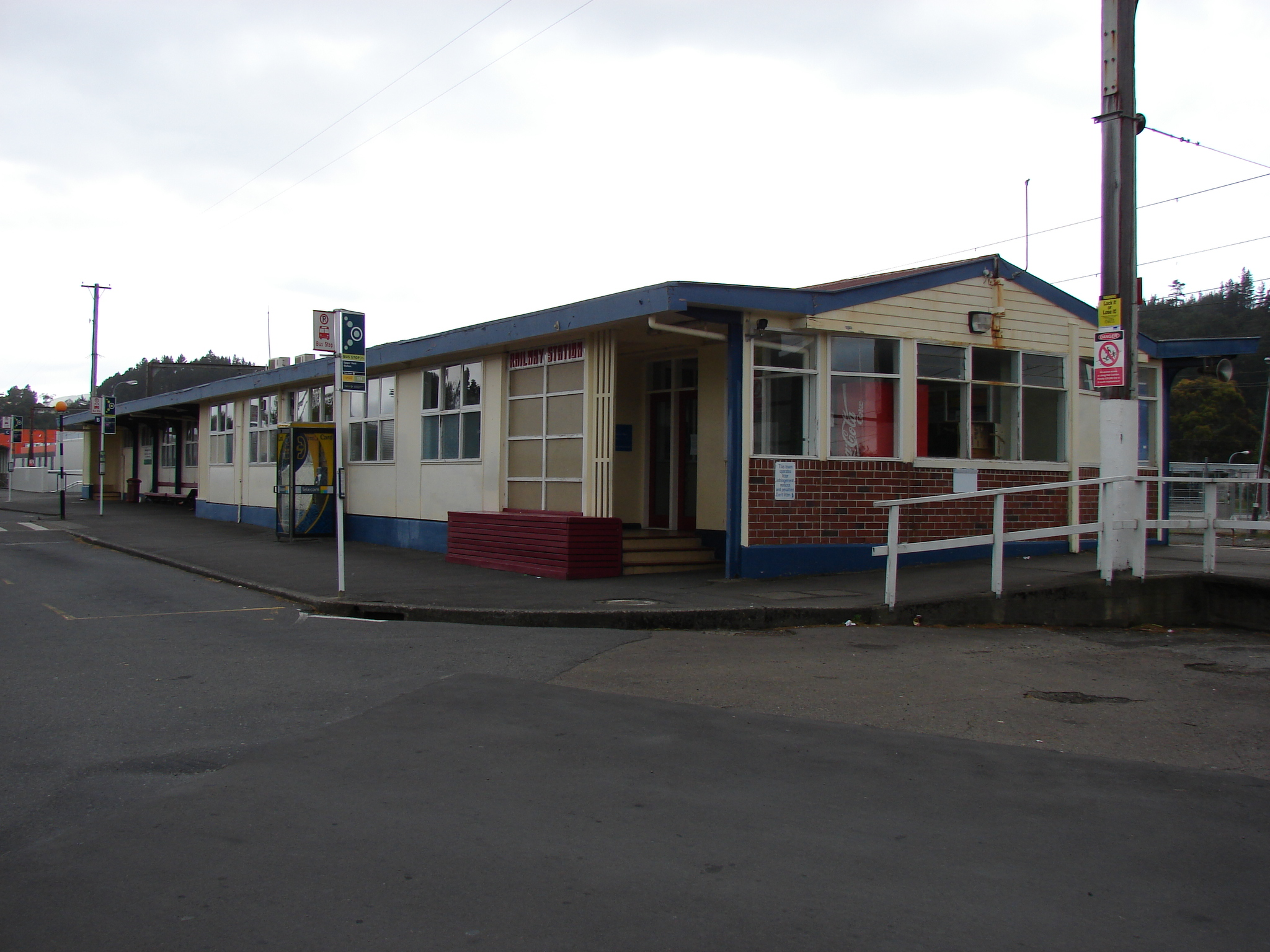 Upper Hutt railway station building. Photographed by Matthew25187 on 2007-12-28.